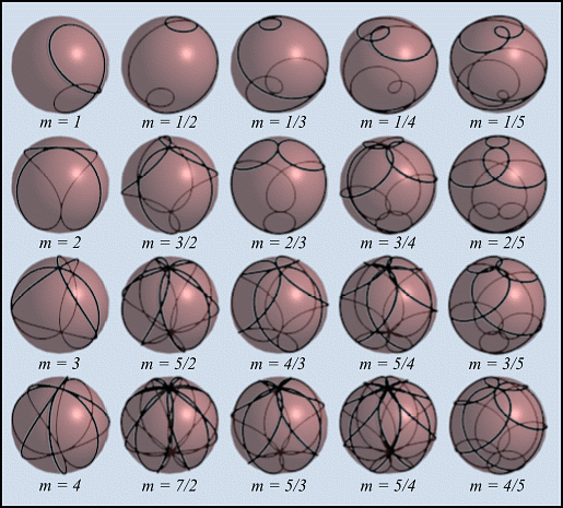 Some Samples of clelies 3d curve (also named clelia)